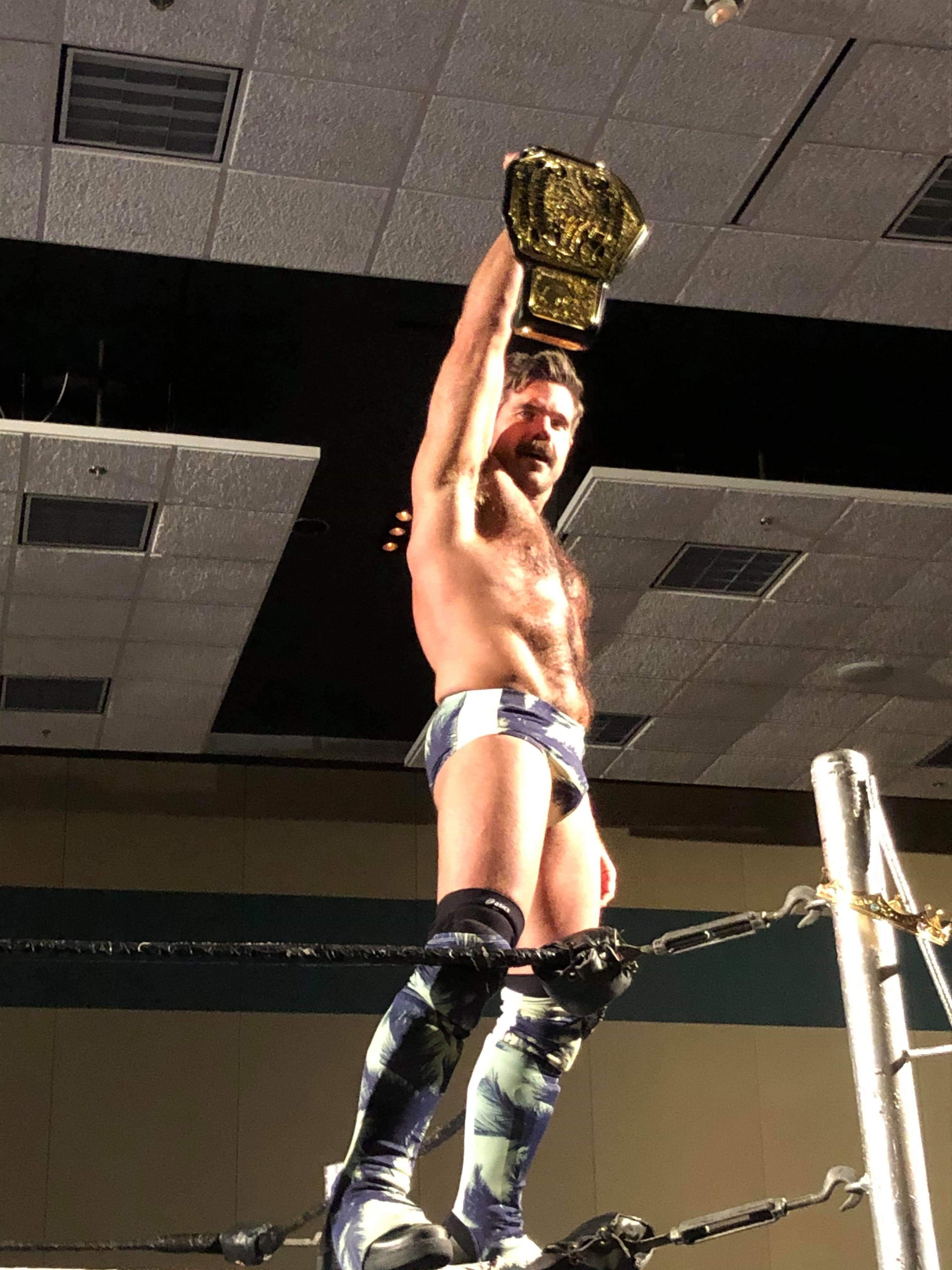 Joey Ryan winning the KWR Heavyweight Championship In November 2019 in Salina, KS at the Tony's Pizza Events Center